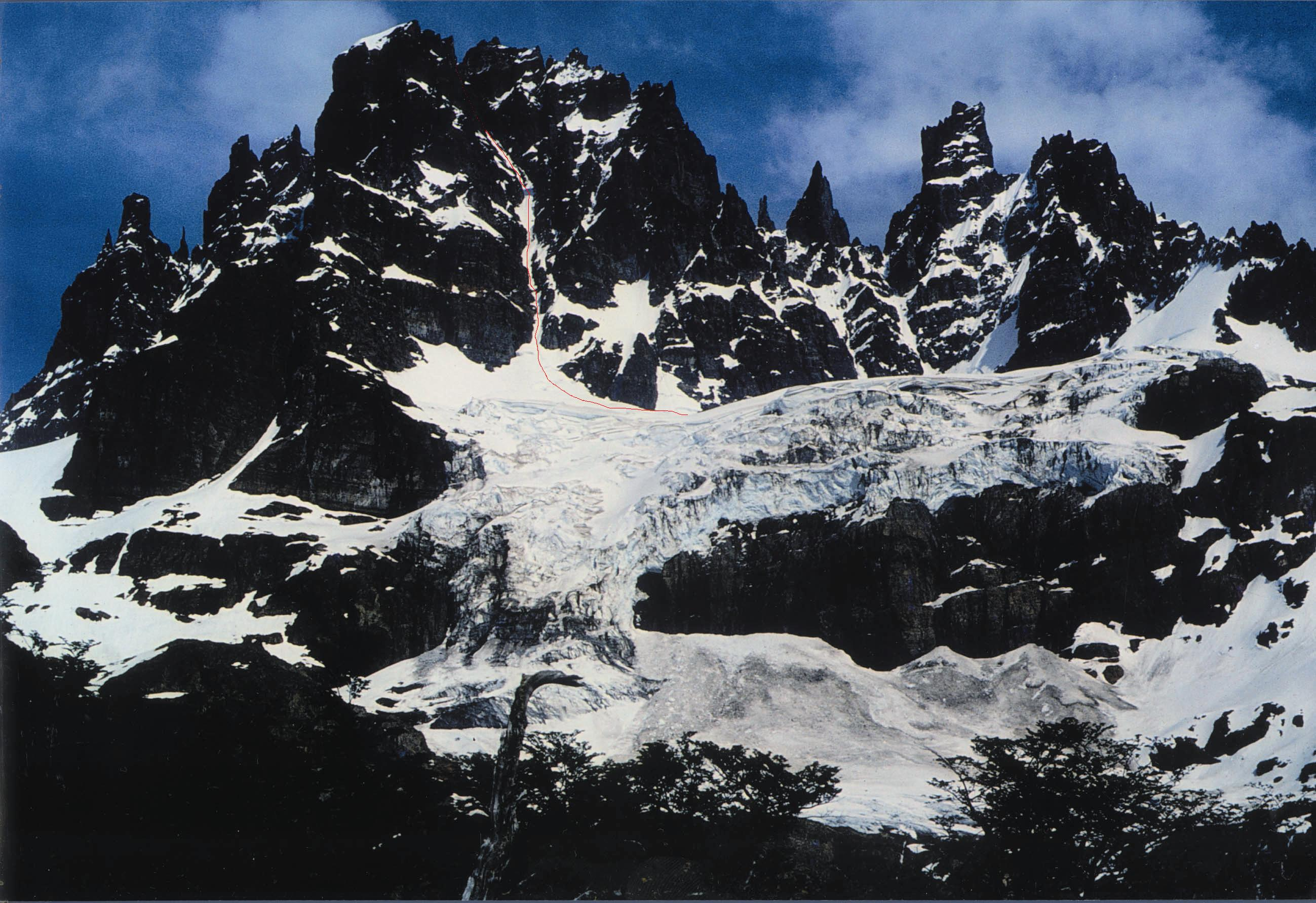 Cerro Castillo Southeast wall Supercouloire: V, 90°/IV, 50-80°, 700 m